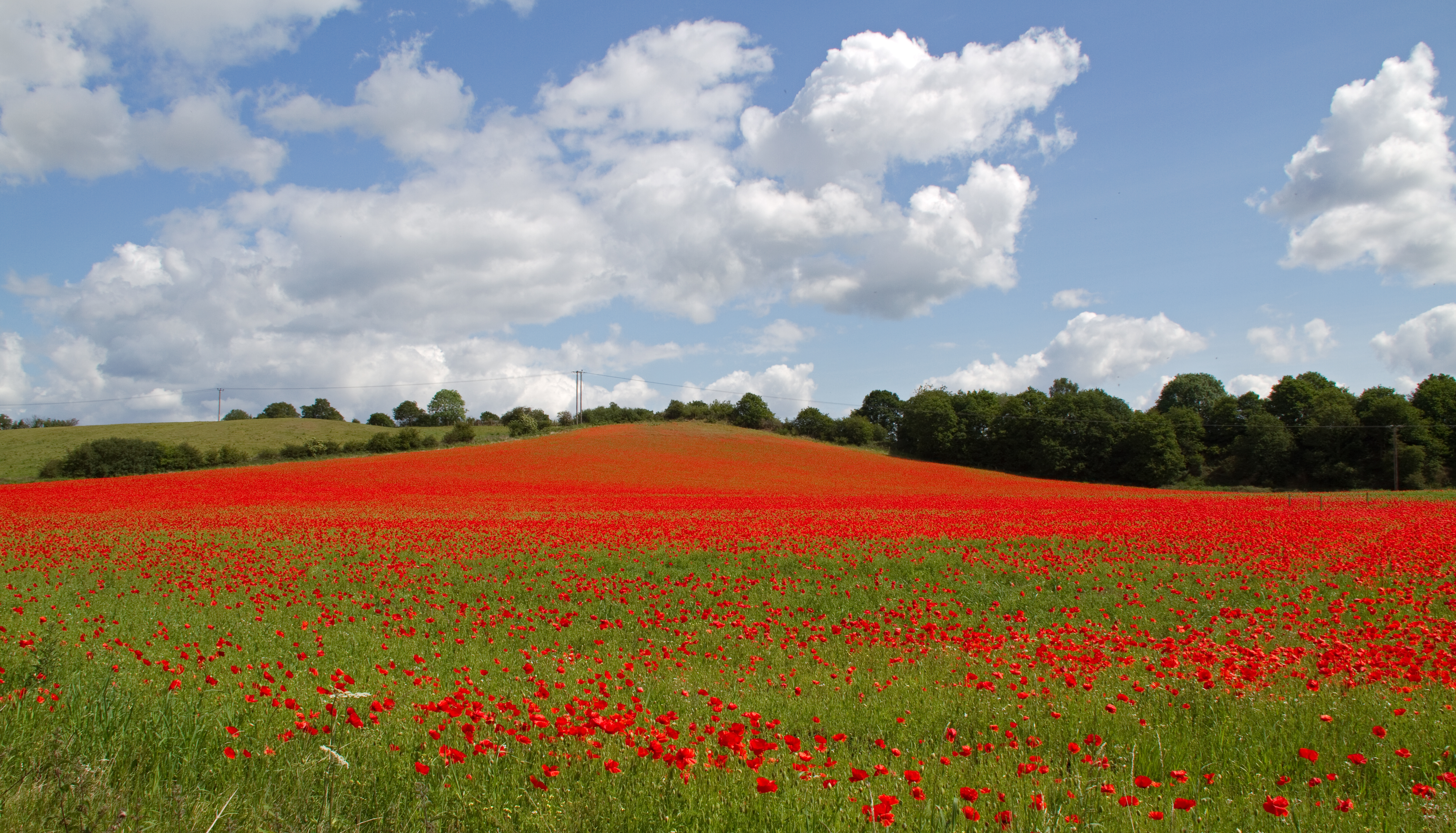 The Worcestershire Wildlife Trust poppy (Papaver rhoeas) dominated fallow field between Bewdley and Stourport, part of the Devil's Spittleful & Rifle Range and Blackstone Farm Fields Nature Reserve, Worcestershire, England